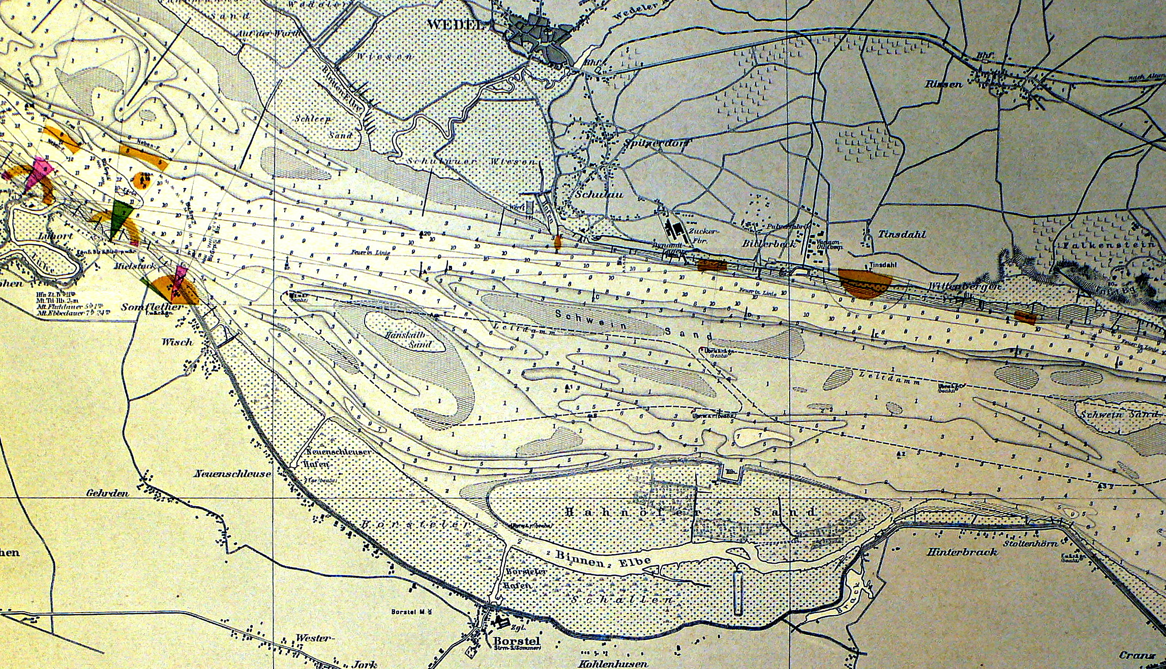 Nautical Chart of the German River Elbe at the City of Wedel